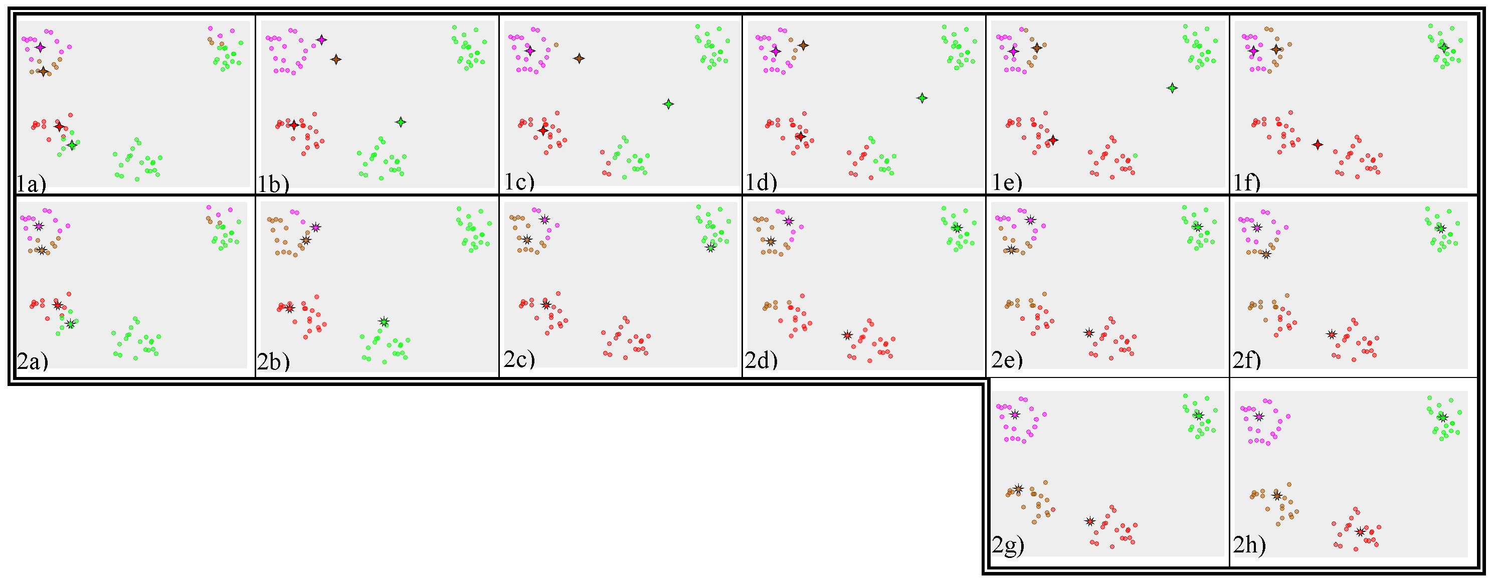 Figs 1a-1f presents a typical example of the k-means convergence to a local minimum. This result of k-means clustering contradicts the obvious cluster structure of data set. In this example, k-medoids algorithm (2a-2h) with the same initial position of medoids (Fig. 2a) converges to the obvious cluster structure. The small circles are data points, the four ray stars are centroids (means), the nine ray stars are medoids. The illustration was prepared with the Java applet, E.M. Mirkes, K-means and K-medoids: applet. University of Leicester, 2011. This applet is published under CC Attribution 3.0 unported license.